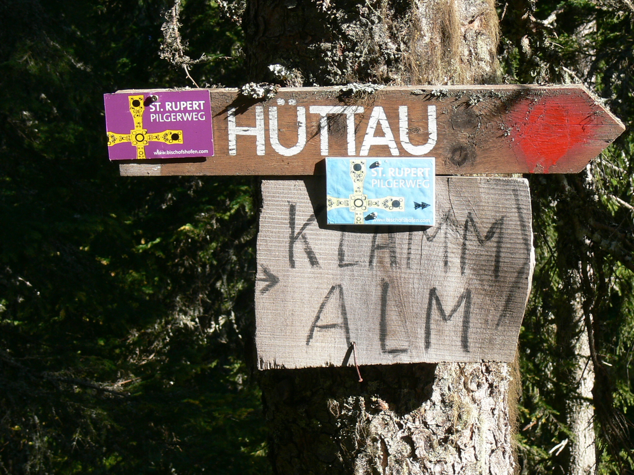 Hüttau ( Salzburg / Austria ). Sign at a hiking trail.